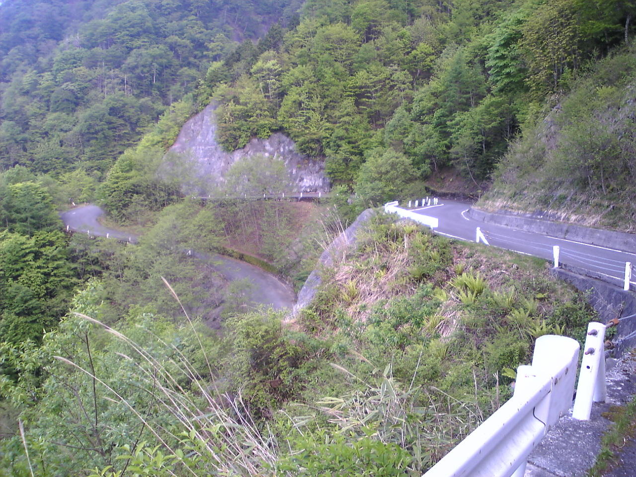 The Toyooka Umegashima Forest Road in Minobu Town, Yamanashi Prefecture, japan